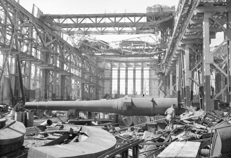 Royal Air Force Bomber Command, 1942-1945. RAF officers inspect an unfinished siege gun in a wrecked building of the Krupps armaments works at Essen, Germany, a principal target for Bomber Command throughout the war.